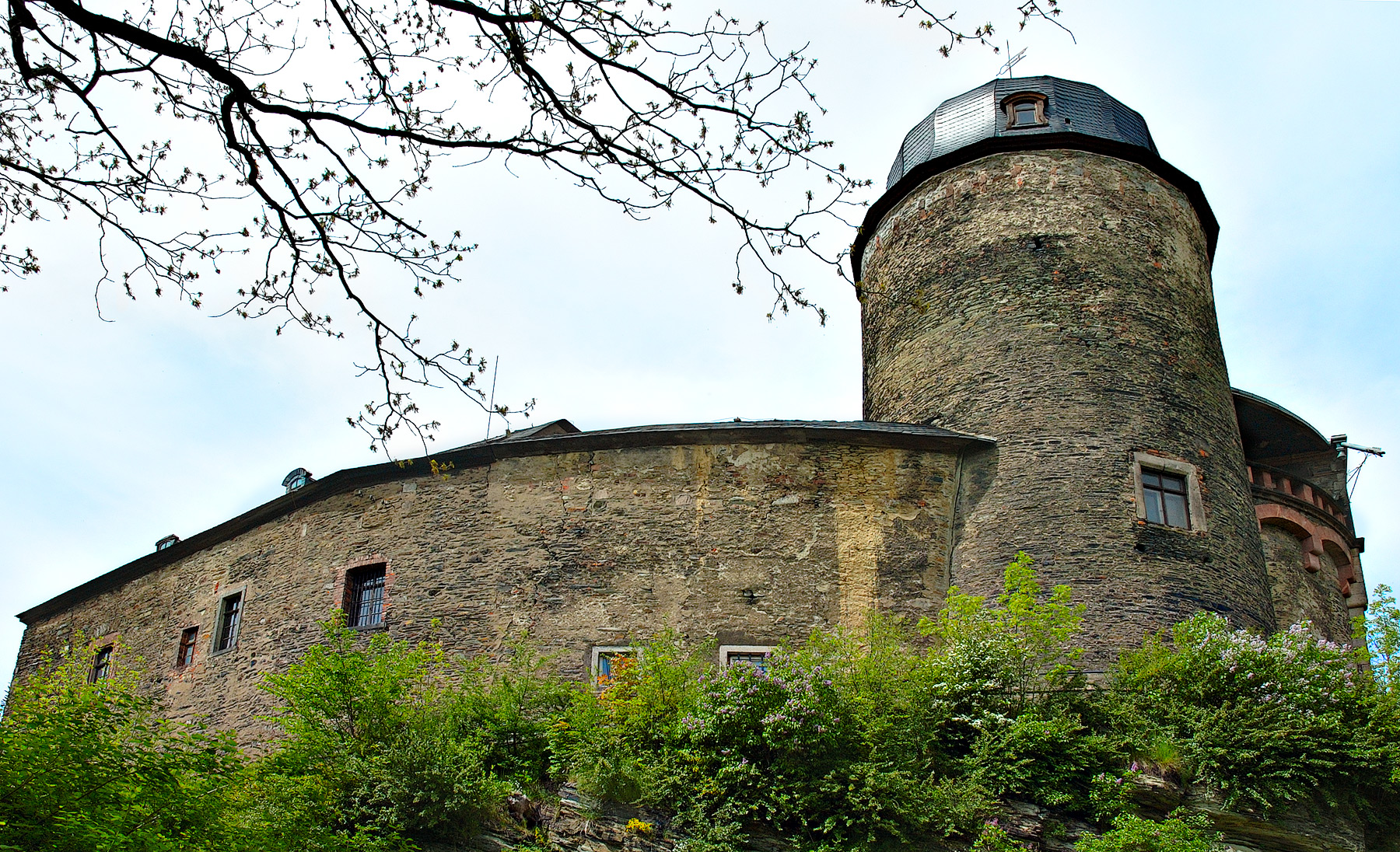 This image shows the castle in Mylau (Saxony, Germany).